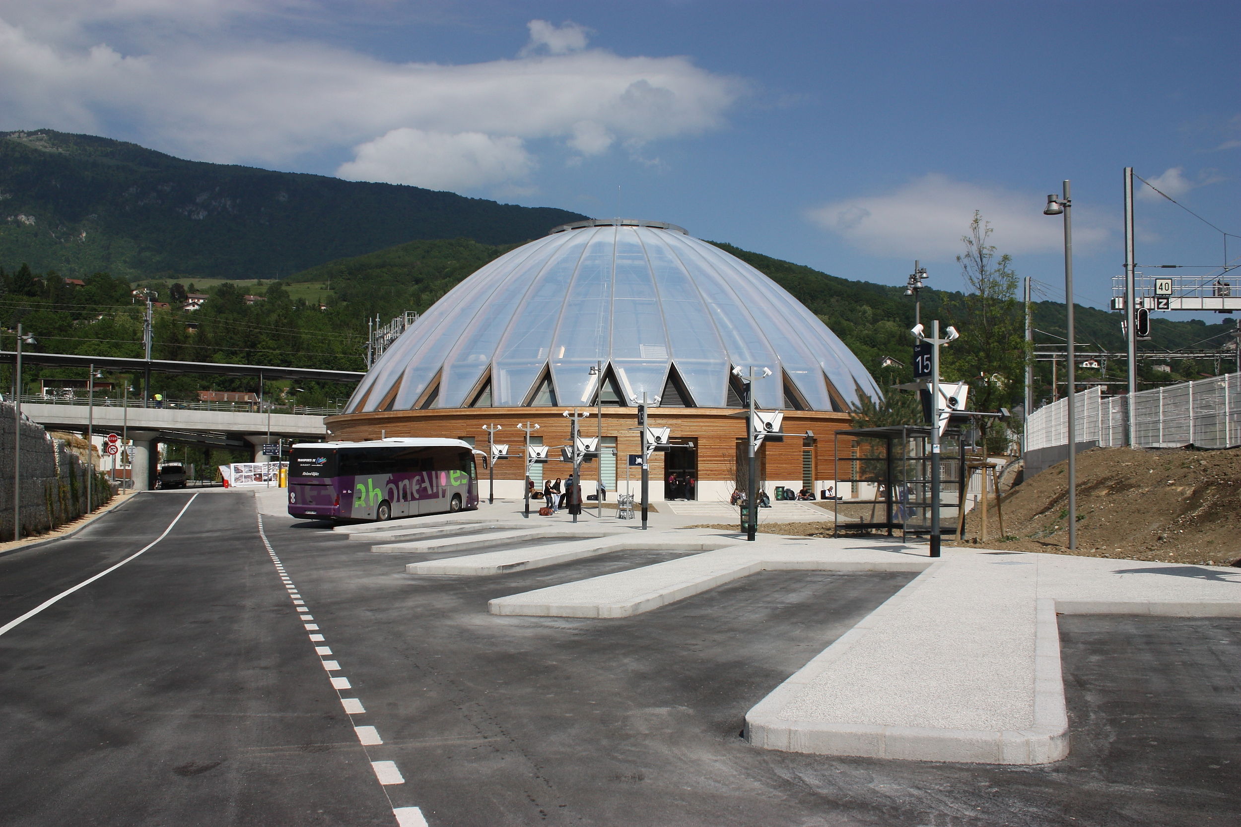 The new railroad station of Bellegarde